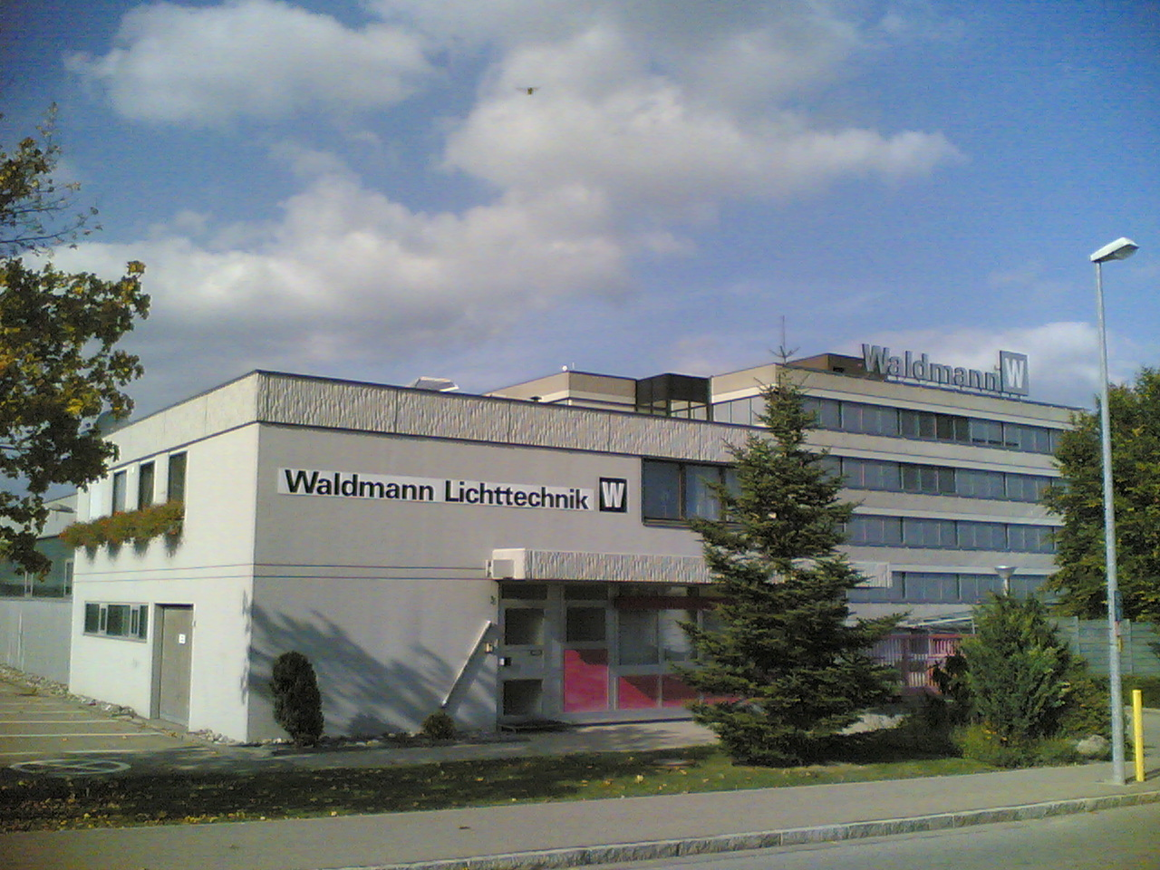 Waldmann Lichttechnik, Villingen-Schwenningen, Germany